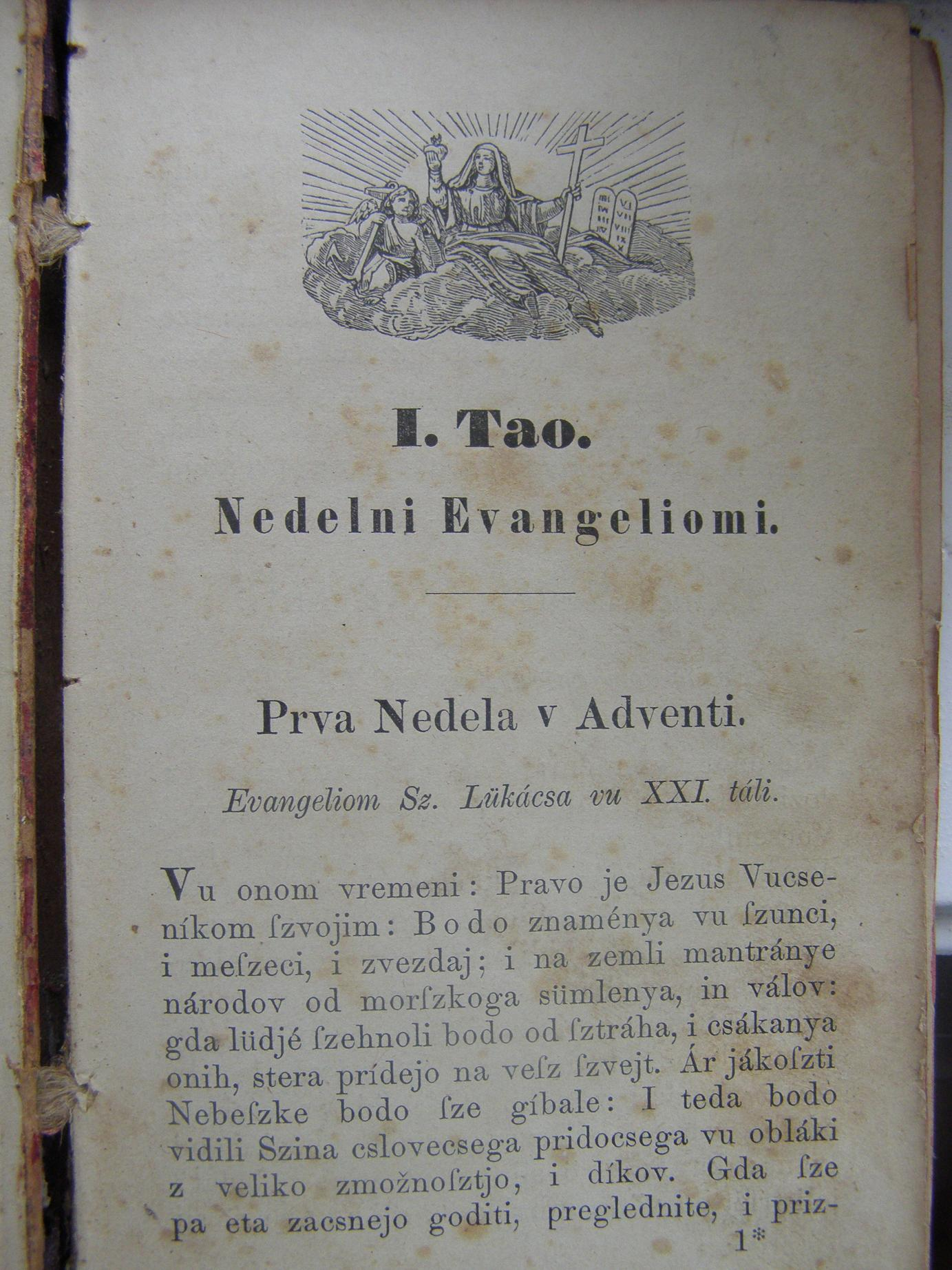 Luke-Gospel in prekmurian language (1840)